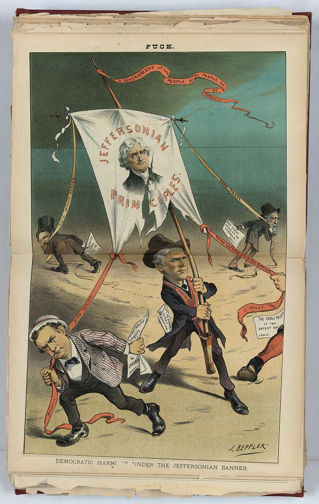 Title: Democratic harmony under the Jeffersonian banner Abstract: Illustration shows Thomas F. Bayard carrying a banner that shows a portrait of Thomas Jefferson and is labeled "Jeffersonian Principles", with a streamer at top that states "A Government of the People, by the People, for the People". Attached to the corners of the banner are ribbons that are being pulled in different directions, tearing the banner in the process. At the upper left, a ribbon labeled "Civil Service Reform" is pulled by George H. Pendleton, holding a notice that states "Civil Service Reform will Save the Country"; at bottom left, a ribbon labeled "High Tariff" is pulled by Samuel J. Randall, he holds a notice that states "High Tariff benefits the Laborer"; at center is Bayard with a notice in his pocket that states "Let us dodge every question"; on the bottom right, a ribbon labeled "To the Victors belong the Spoils" is held by John Kelly, along with a notice that states "The Spoils Policy is the Safest Policy"; and at top right, a ribbon labeled "Free Trade" is pulled by Abram S. Hewitt, he holds a notice that states "Free Trade benefits the Laborer". Physical description: 1 print : chromolithograph. Notes: Copyright 1883 by Keppler & Schwarzmann.; J. Keppler.; Illus. from Puck, v. 13, no. 320, (1883 April 25), centerfold.; Title from item.